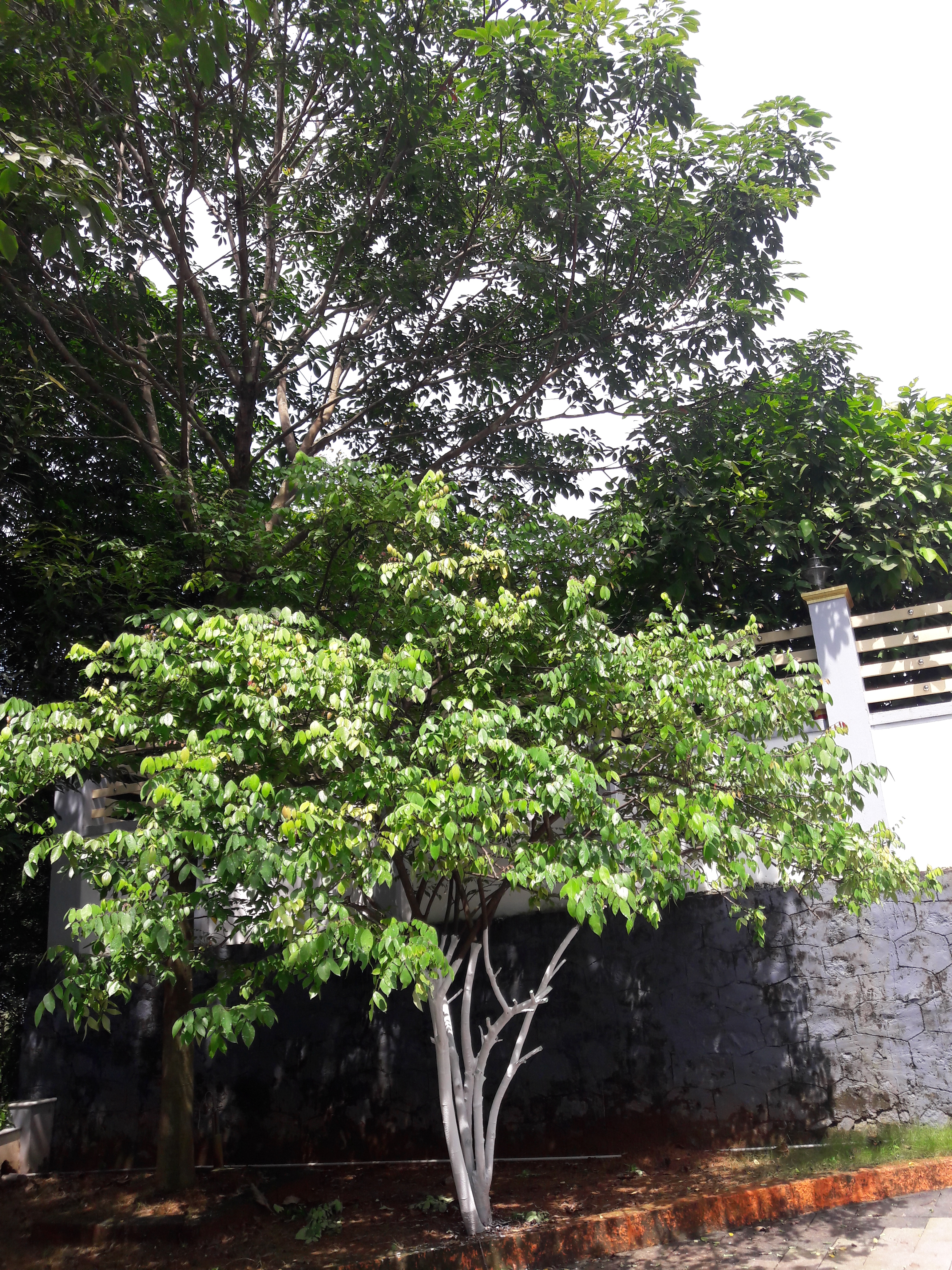 Carambola after pruning.Scientific name Averrhoa carambola family Oxalidaceae.